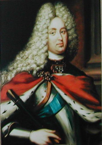 Christian Everhard, Prince of East Frisia (1665-1708) See this article on the image's restoration for further information (in German).